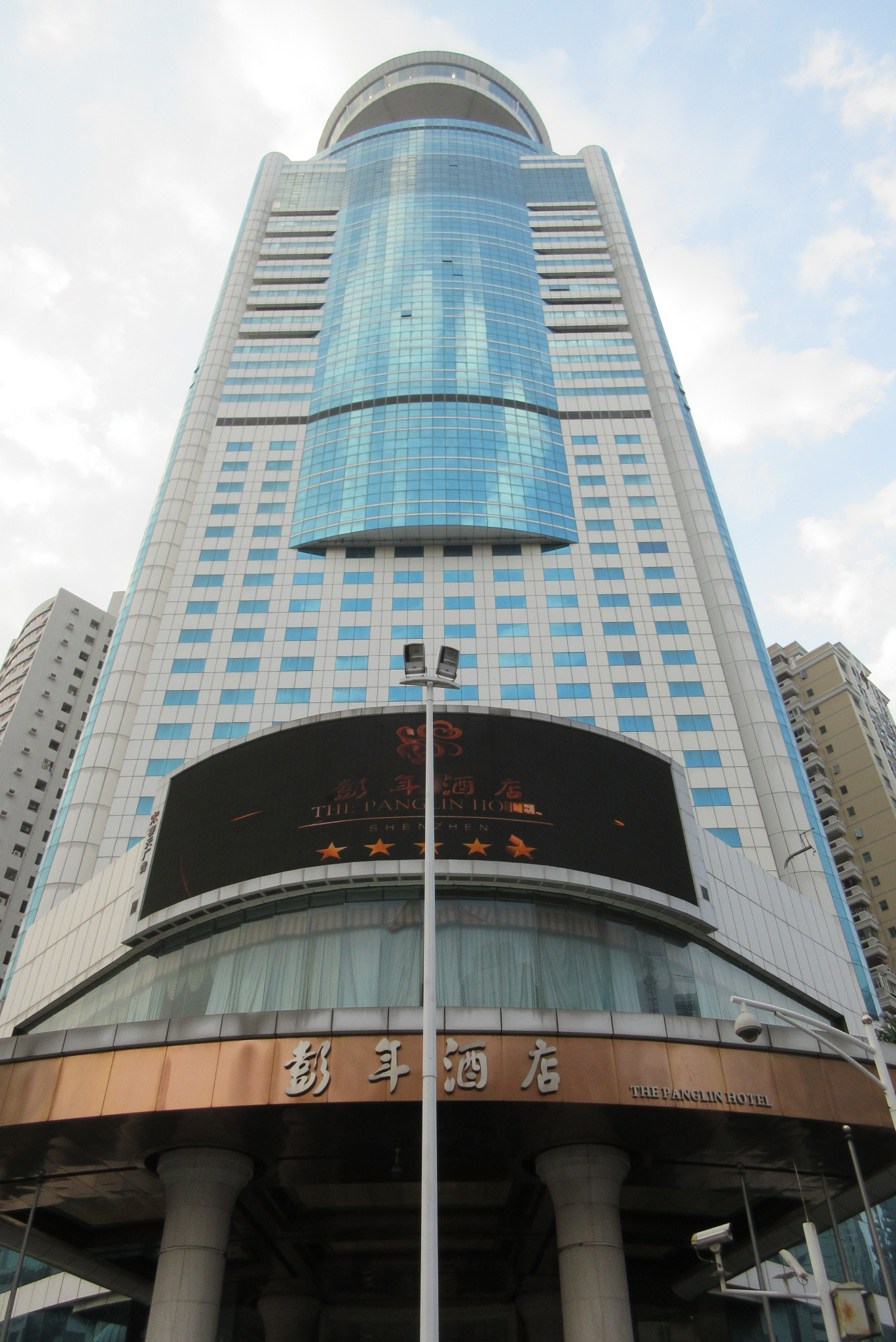 Panglin Hotel, Shenzhen